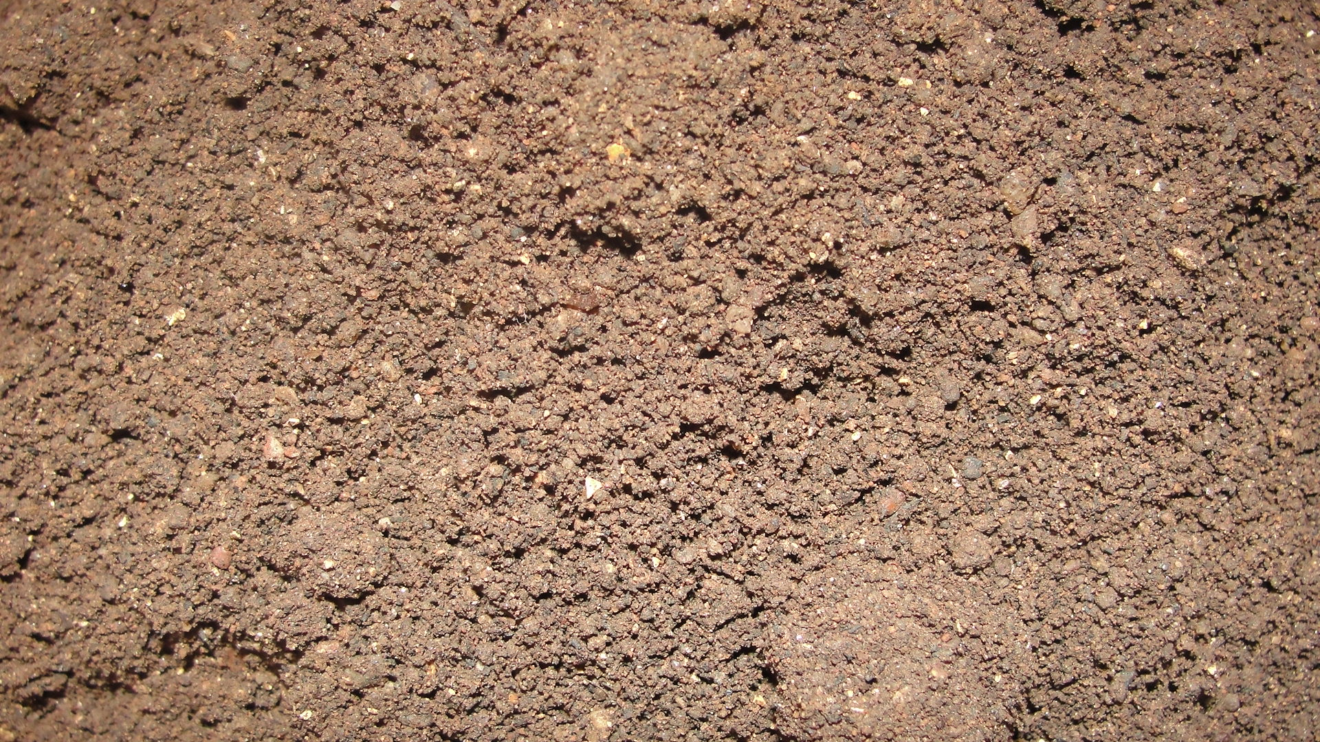 A Vermi compost